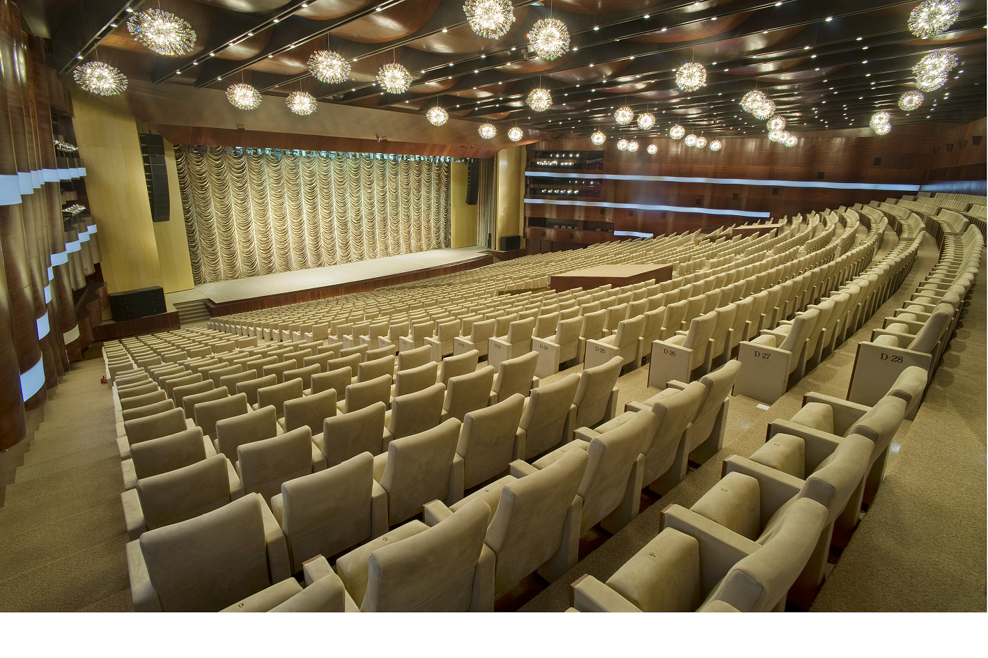 Saray_1